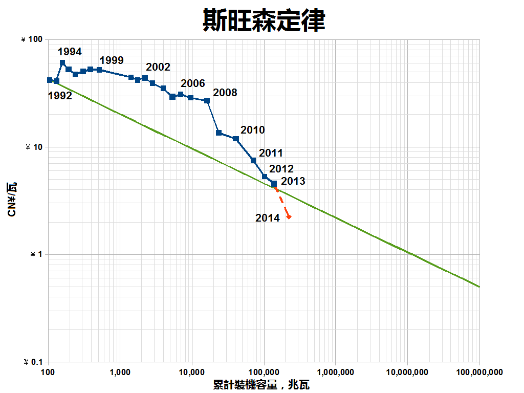 The green line shows Swanson's law, a 20% decrease in price for every doubling of cumulative shipped photovoltaics. The blue line shows actual world wide cumulative installations vs. average cell price. Original source data 1977–2013: Bloomberg, New Energy Finance, (archived) 2014: based on average sales price of $0.36/watt on 26 June 2014 from 2015: based on average sales price of $0.30/W on 29 April 2015 from compare to current spot-market prices here.